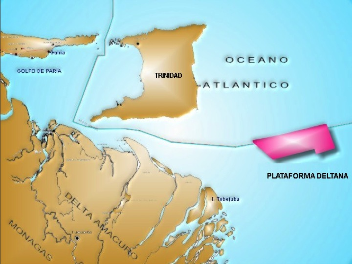 Fig. 1. Ubicación del área Plataforma Deltana